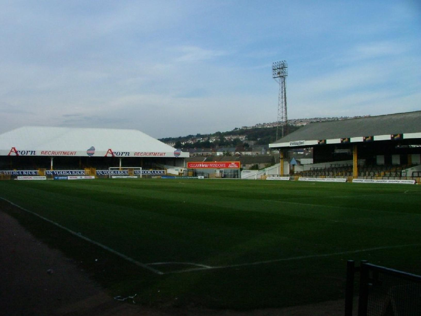 The Vetch Field a year after it had been last used by the Swans